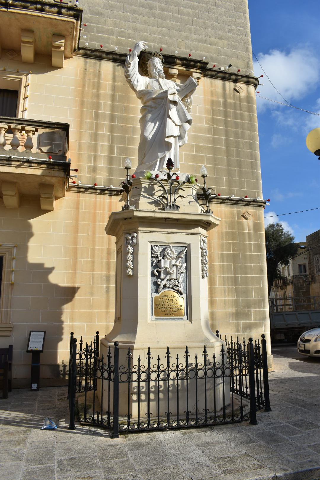 Statue of St. Paul This media is about Maltese cultural property with inventory number 01884.